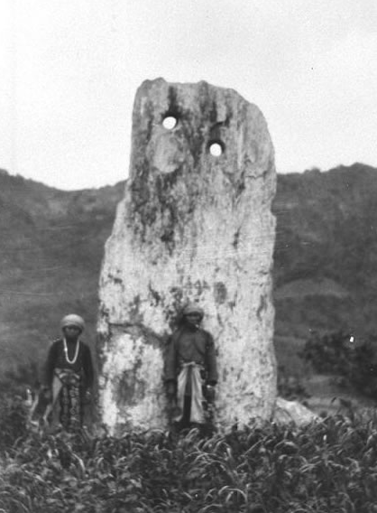 The Moon-shape Monolith, by Japanese anthropologist Torii Ryūzō